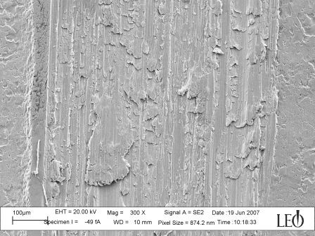 A picture on sheet damage created by the galling phenomenon using a SOFS (TNO) test equipment. The damage illustrates a characteristic uneven surface. No continues lines or stripes are present but the whole contact zone is scratched implying wear below the surface layer. The pattern is consequently discussed as a sign of severe adhesive bonding between the surfaces and the damage must involve a clear change in the sheets plastic behavior and involve a larger deformed volume compared to mild adhesive flattening of oxides. “Severe adhesive contact” is possibly the same as “cold welding”, “friction welding”, “scuffing” or other wear phenomenon’s.